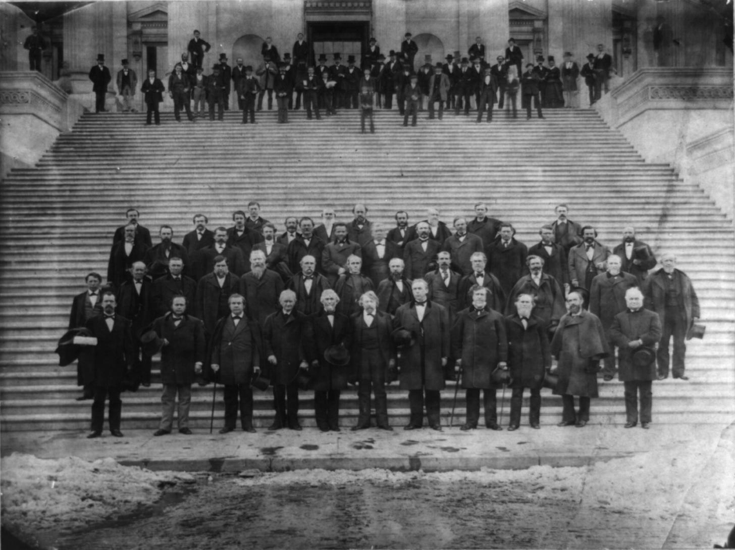 Senators of the 43rd United States Congress. Photograph taken 1874-02-12 on East Senate Portico of the Capitol.